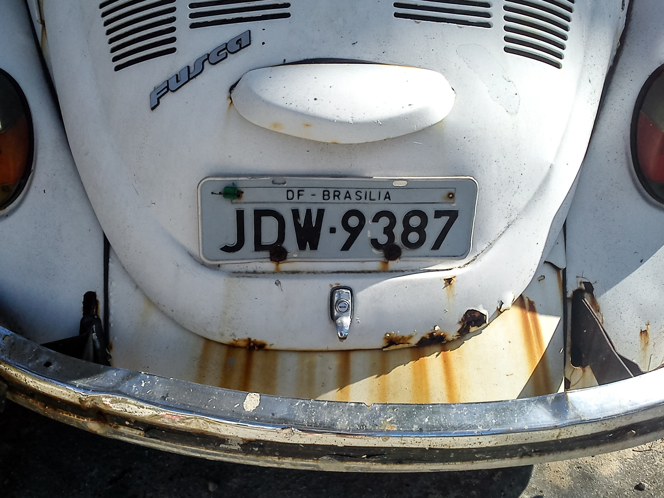 Brasília license plate on Fusca